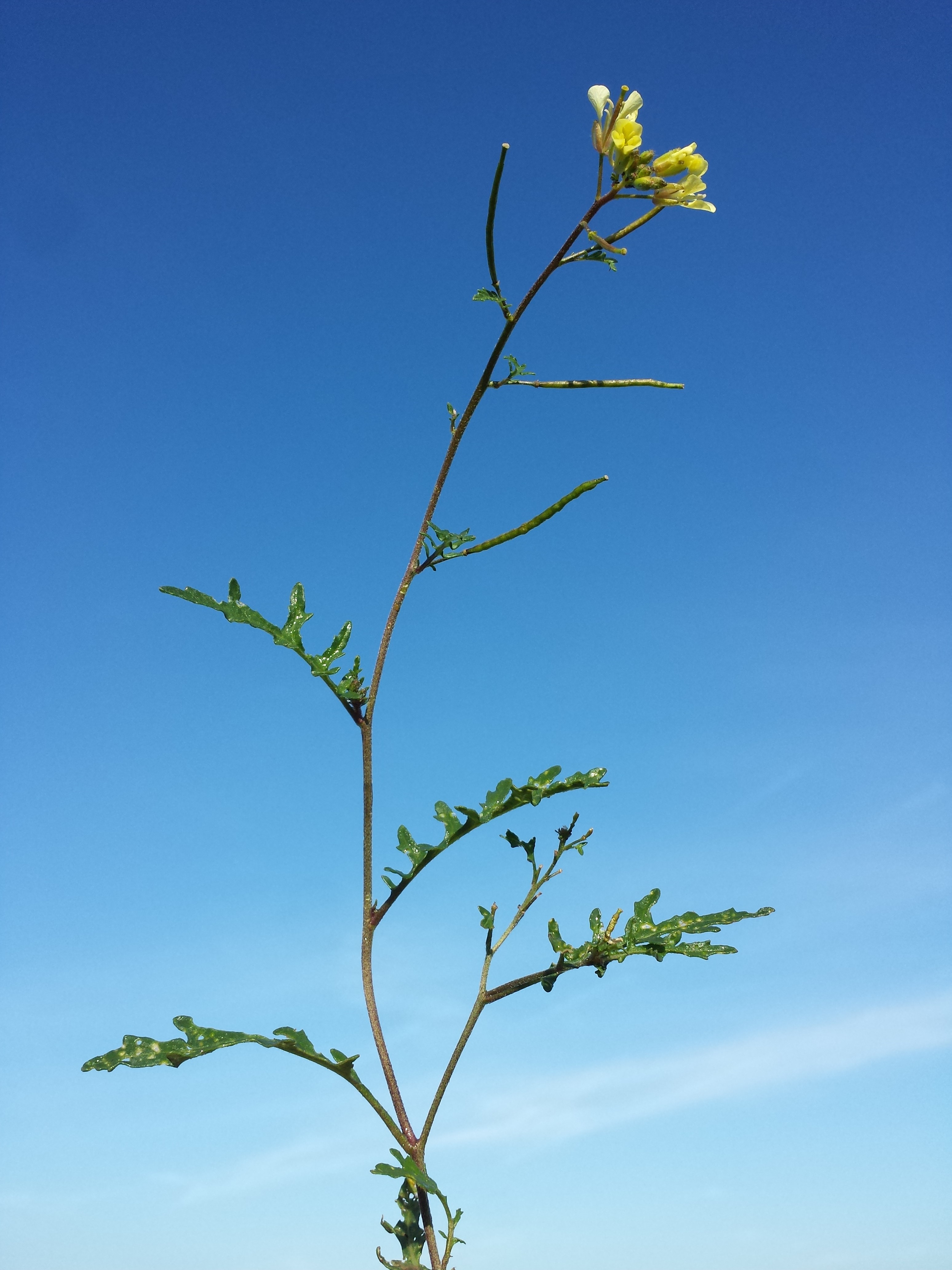 Inflorescence/infructescence Taxonym: Erucastrum gallicum ss Fischer et al. EfÖLS 2008 ISBN 978-3-85474-187-9 Location: pond near Michelstetten, district Mistelbach, Lower Austria - ca. 250 m a.s.l. Habitat: fallow land